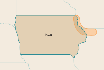 Distribution of Iowa Pleistocene Snail (Discus macclintocki).